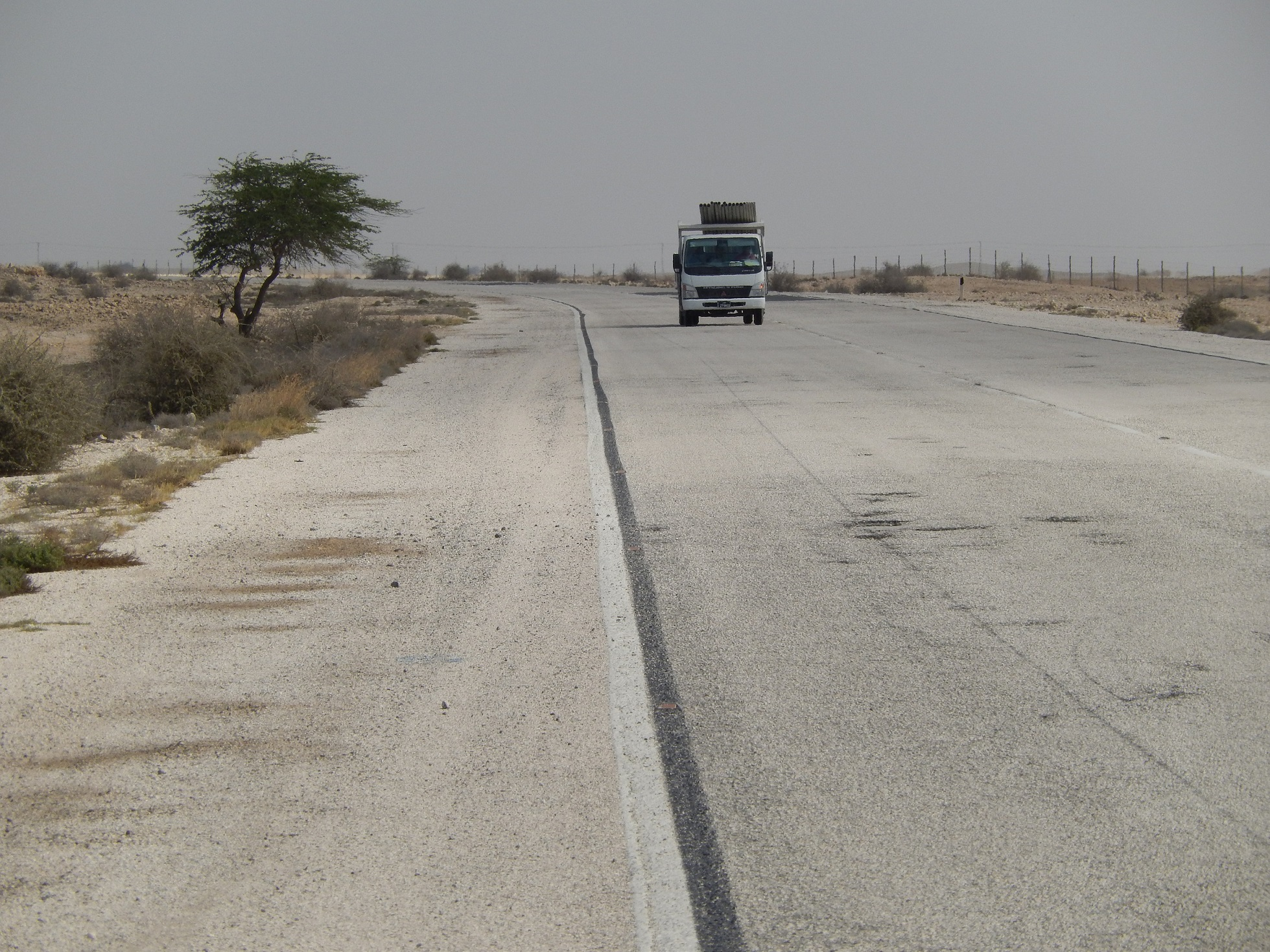 Qatar: Road from Zubarah to Al-Ghuwairiyah, looking into the direction of the latter.